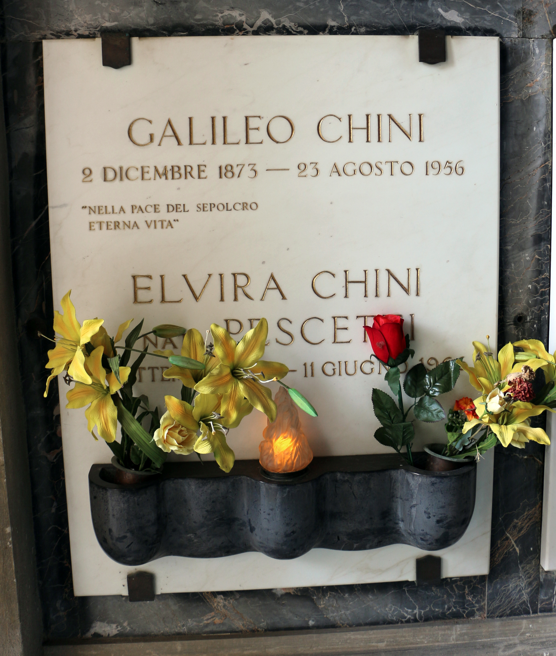 Cimitero Monumentale della Misericordia (Antella)